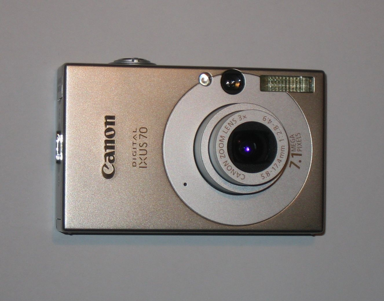 Compact Digital Camera Canon Digital IXUS 70